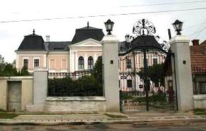 Bánffy castel, Romania